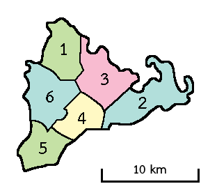 Subdistricts of Chiang Khwan